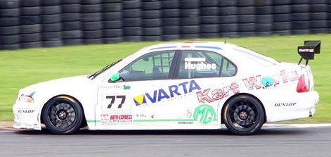 Jason Hughes' MG ZS racing car at Croft, July 2004